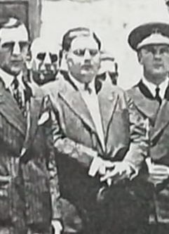 Isidro Pérez San José, mayor of Cartagena between March and September 1932, during the ground-breaking ceremony of La Conciliación neighborhood on May 29, 1932.